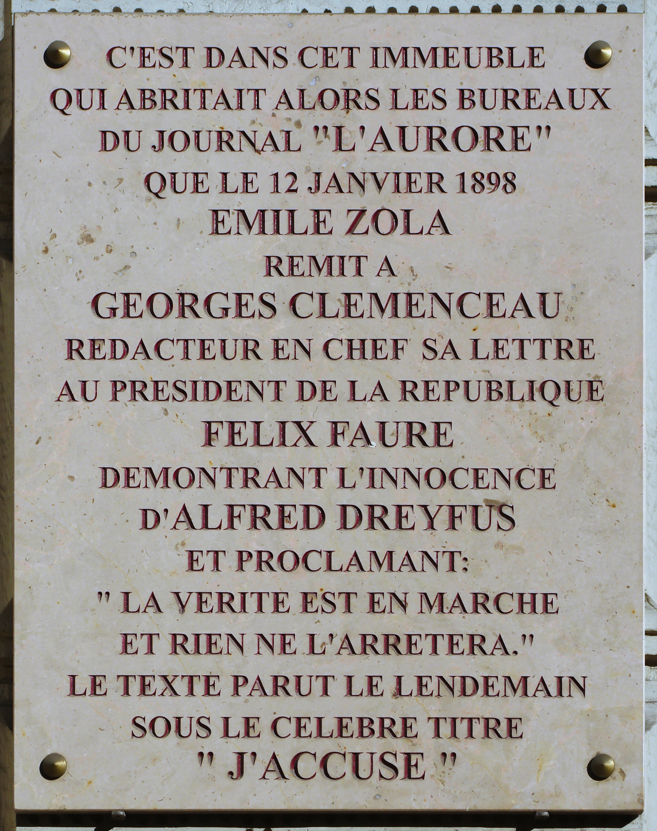 Plaque on the building where the newspaper L'Aurore was housed when Emile Zola wrote his famous article "J'accuse", during the Dreyfus affair in 1898. 144, rue Montmartre, Paris (2e), France.